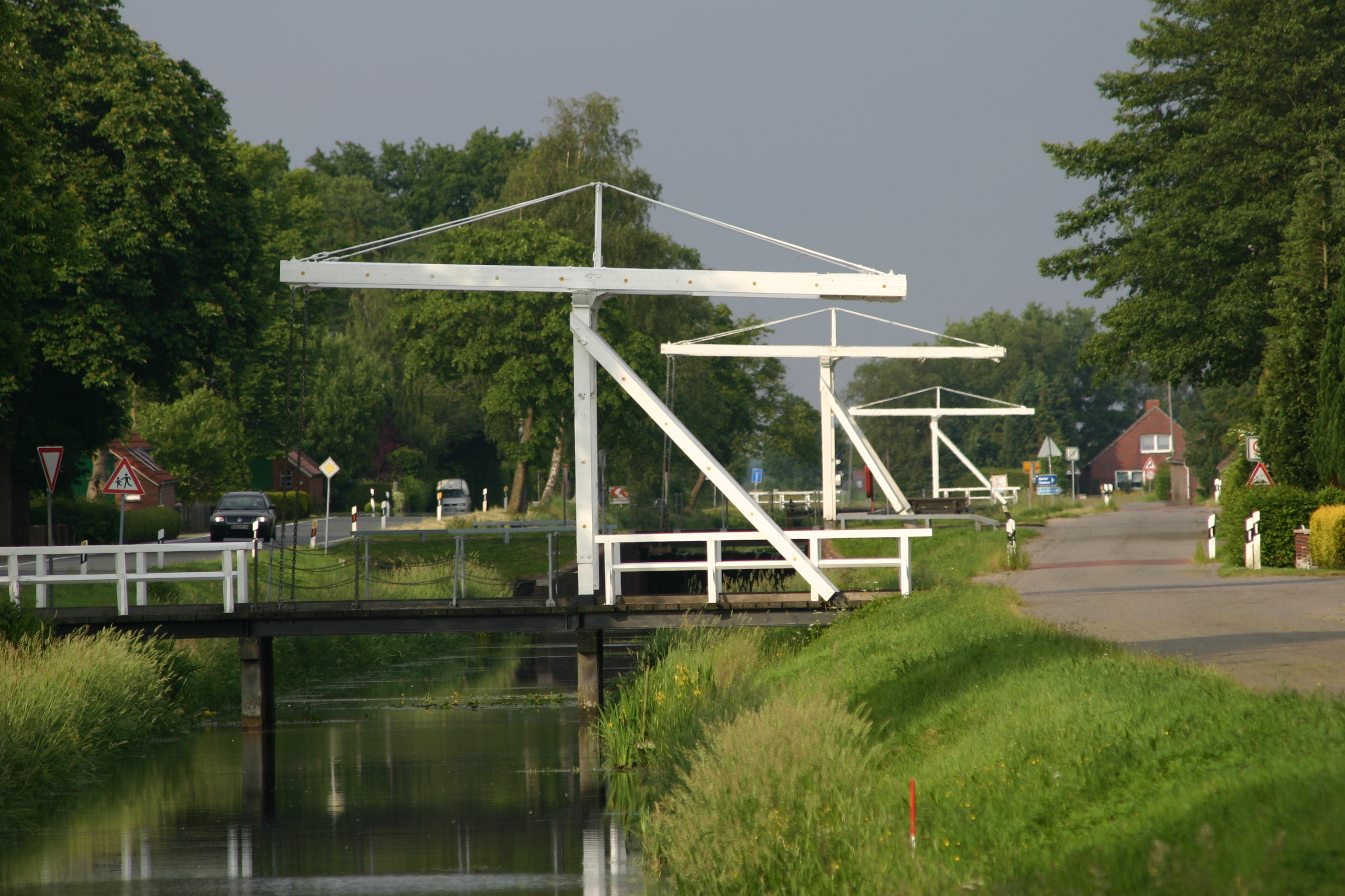 Bridges in the community of Großefehn, district of Aurich, East Frisia, Germany